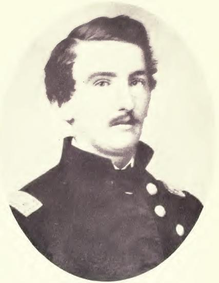 Portrait of Lieutenant Colonel David G. McIntosh, officer of the Confederate Army